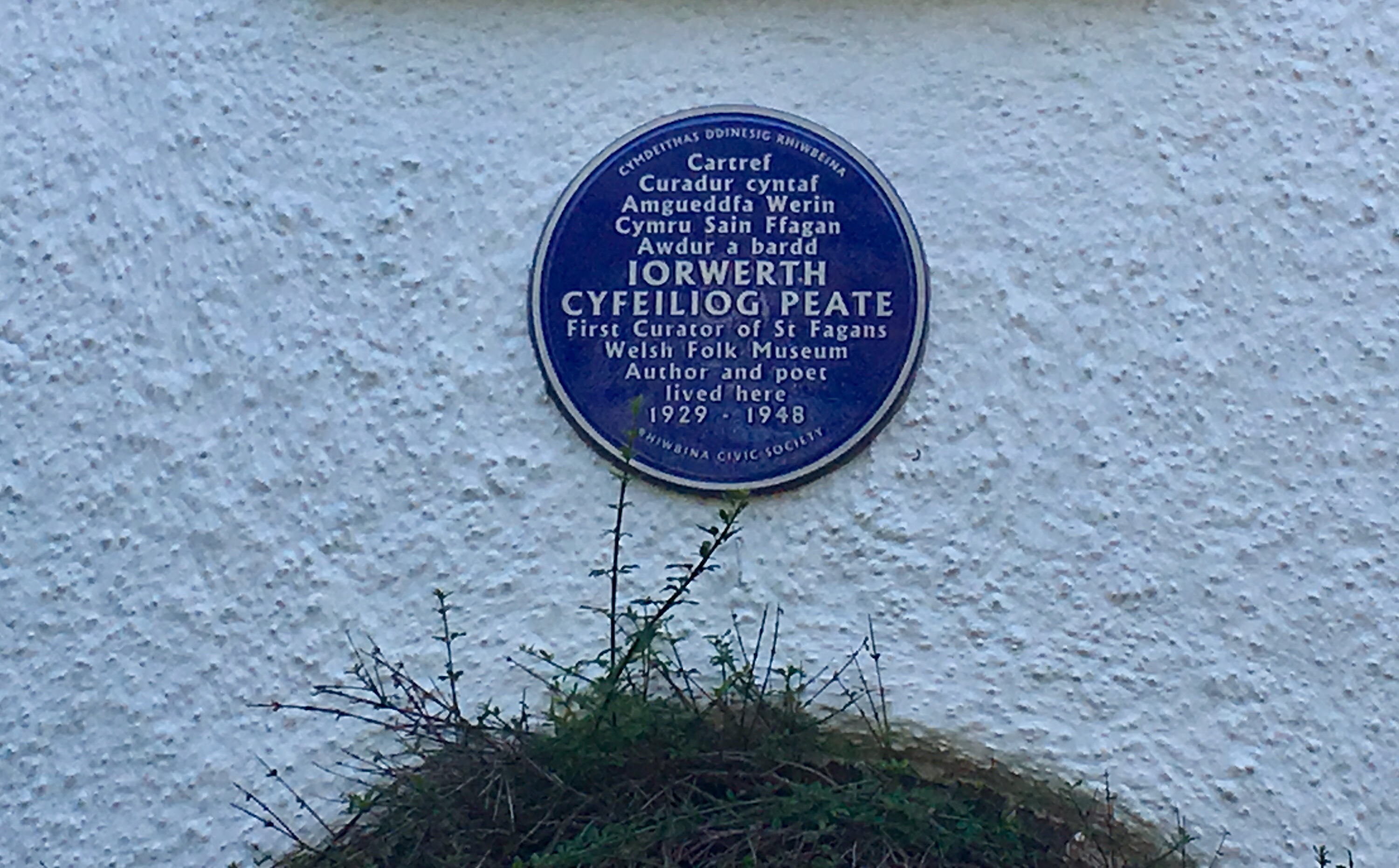 Abergavenny and around, July 2020